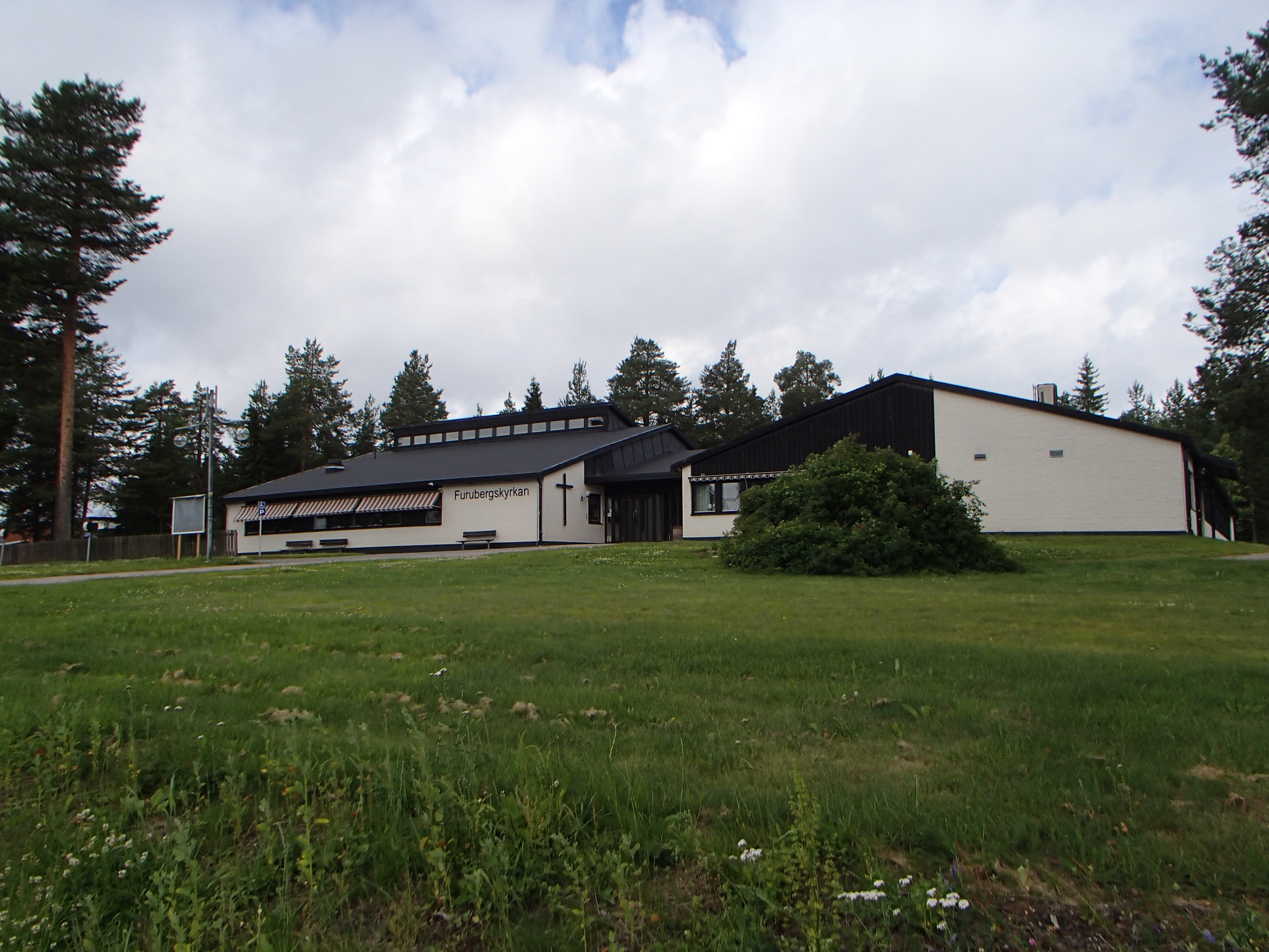 The church building of "Furubergskyrkan" at Furubergsvägen 20 in Furunäset, Piteå Municipality, viewed from southeast